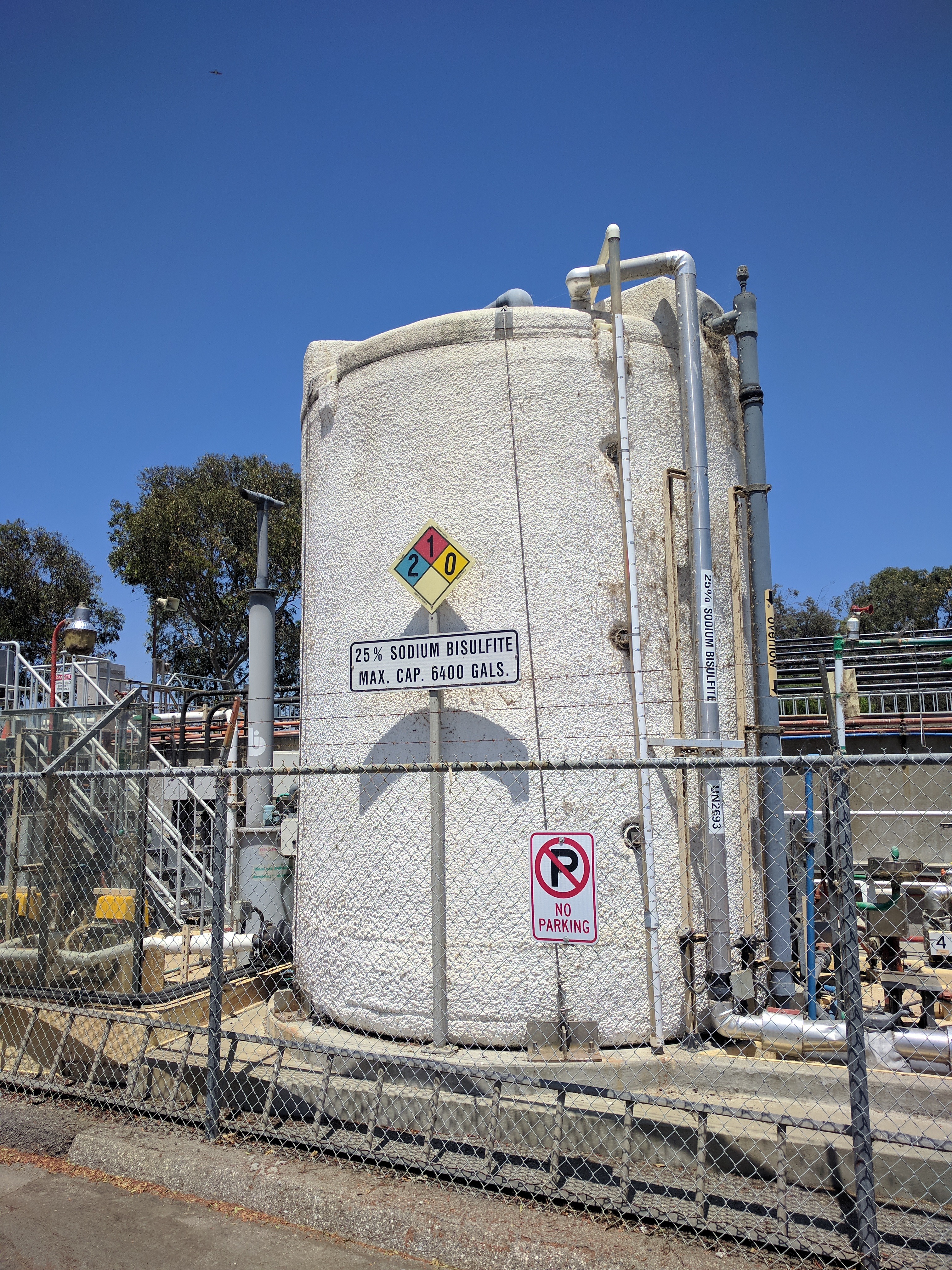 A tank containing 25% sodium bisulfite at the Sunnyvale Water Pollution Control Plant.